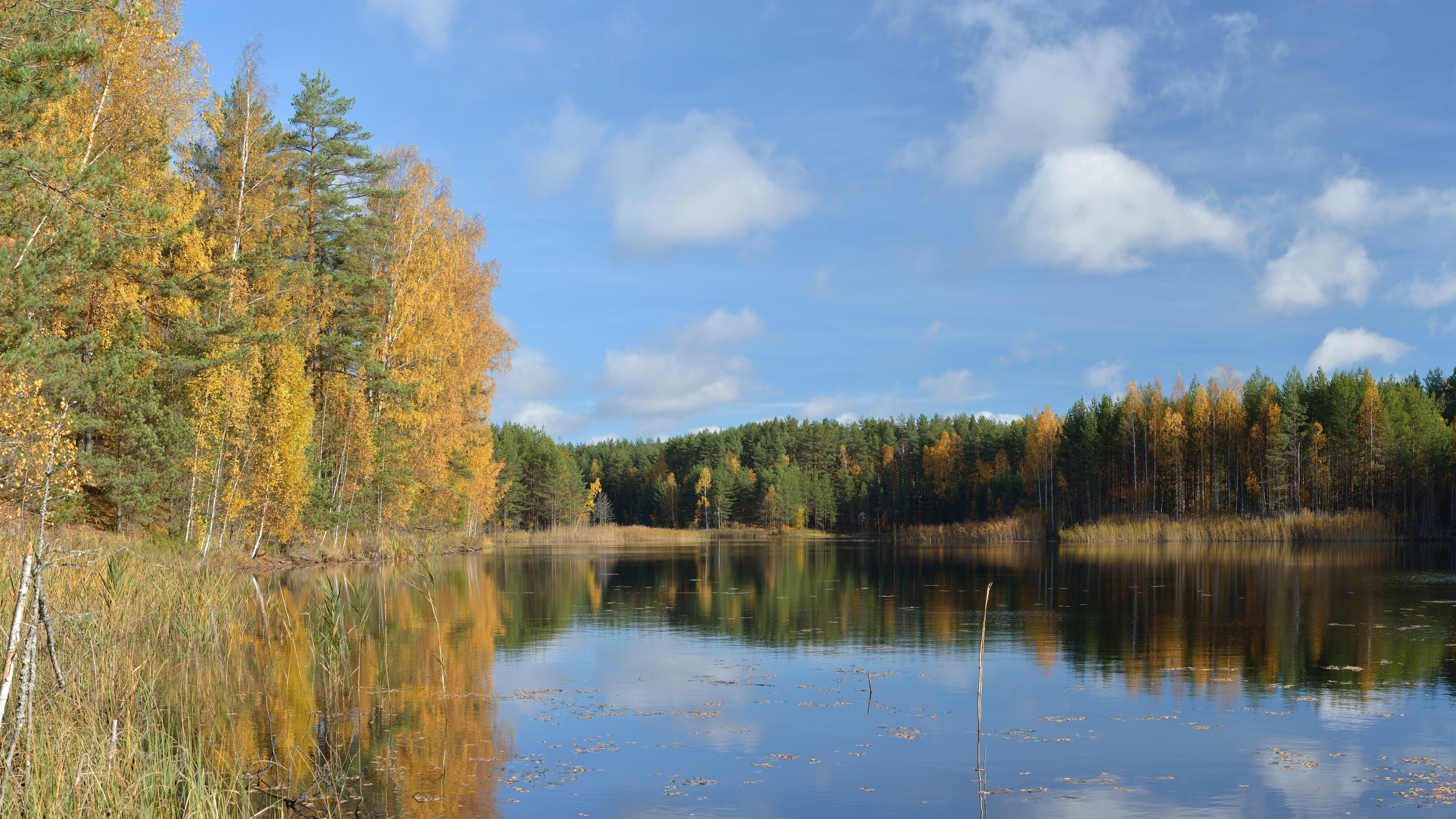 Lake Ahnejärv, Kurtna Landscape Reserve. Surface area 7.5 ha, deepness as far as 5.5 m.